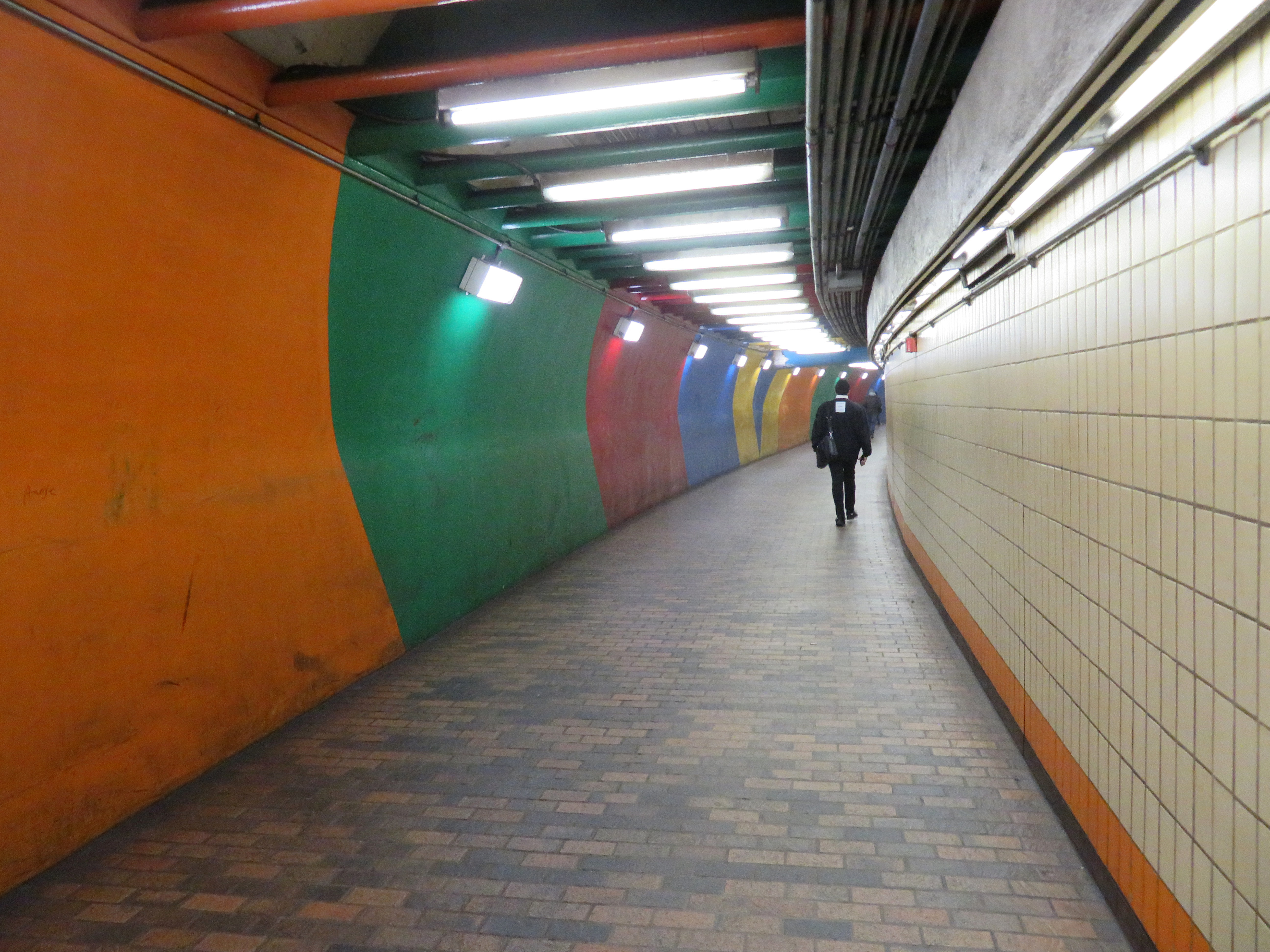 Colorful pedestrian tunnel (once called "the speedway") to the southbound Orange Line platform at State station in December 2018. This view looks south towards the platform.